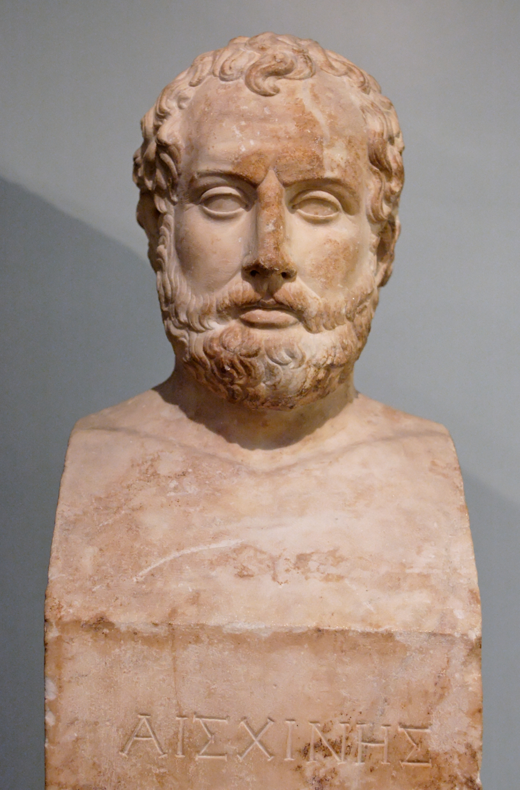 Bust of Aischines (inscription). Marble, Roman copy after a Greek Hellenistic original.